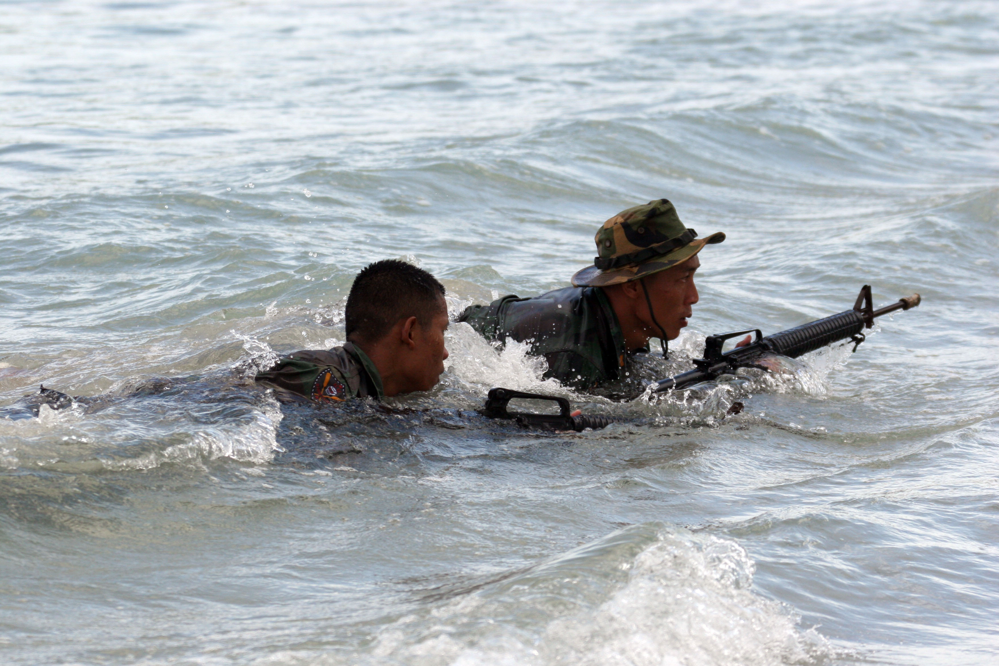 Scout swimmers with the Royal Thai Marine Corps� Reconnaissance Battalion move through the water during a scout swimmer exercise with Marines from III Marine Expeditionary Force�s Special Operations Training Group June 20 at Had Yao Beach in Chonburi, Thailand. The training was part of Cooperation Afloat Readiness and Training 2007, an annual series of bilateral, maritime exercises between the United States and Southeast Asian nations.